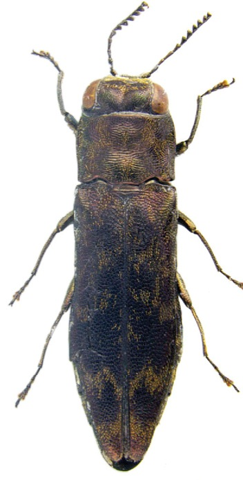 Agrilus horniellus Obenberger, 1935.